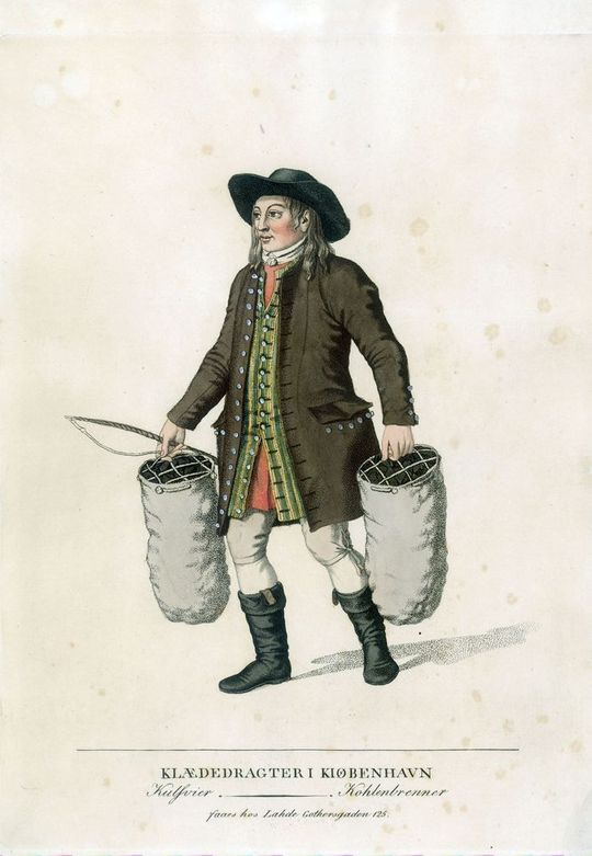 Collier at Kultorvet in Copenhagen, Denmark. Illustration from Klædedragter i København, published in 1817-1820.